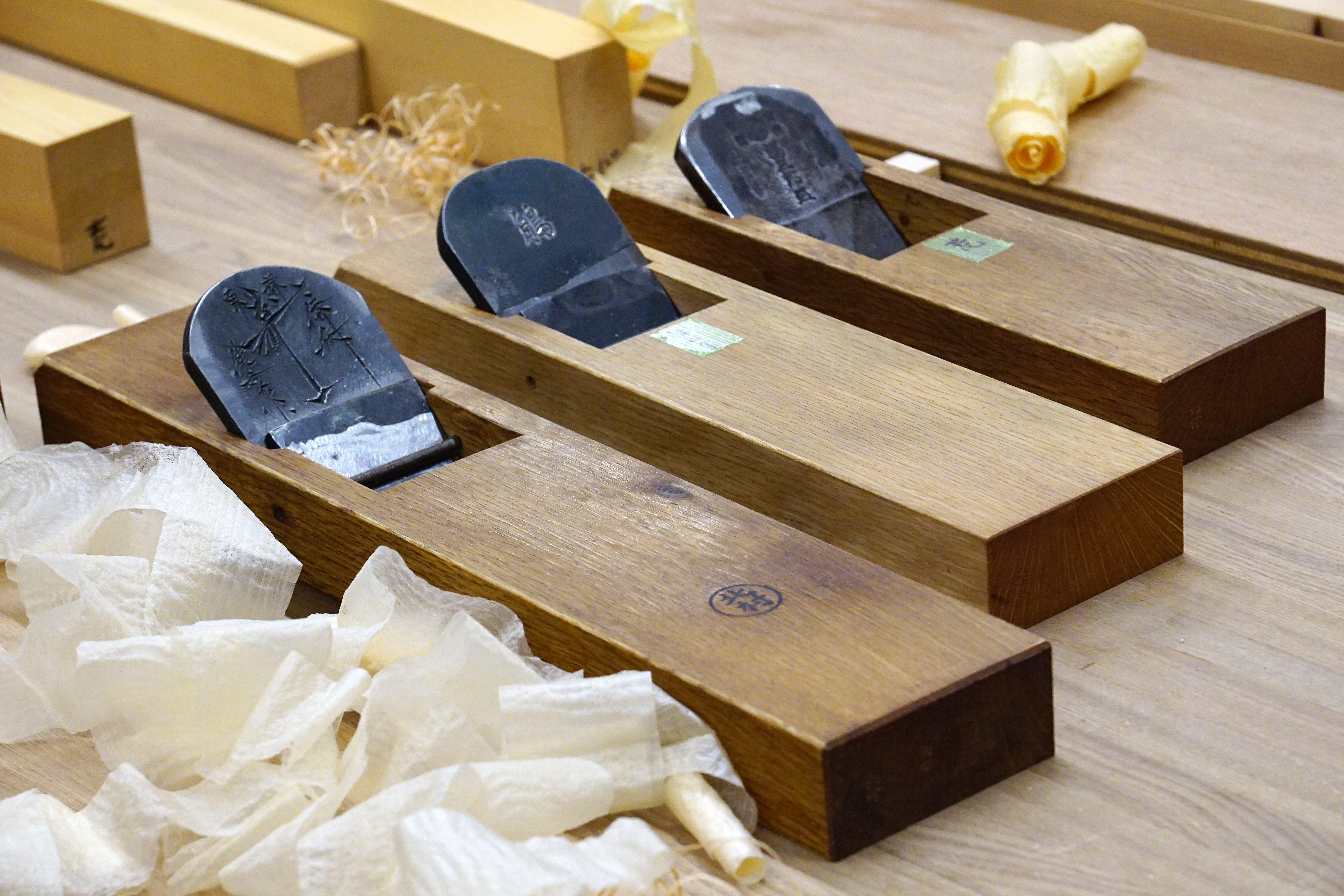 Takenaka Carpentry Tools Museum in Kobe, Hyogo prefecture, Japan.